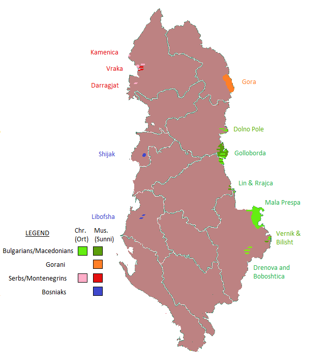 All citations can be found at User:Calthinus/AlbaniaTraditionalCommunitiesCitations.